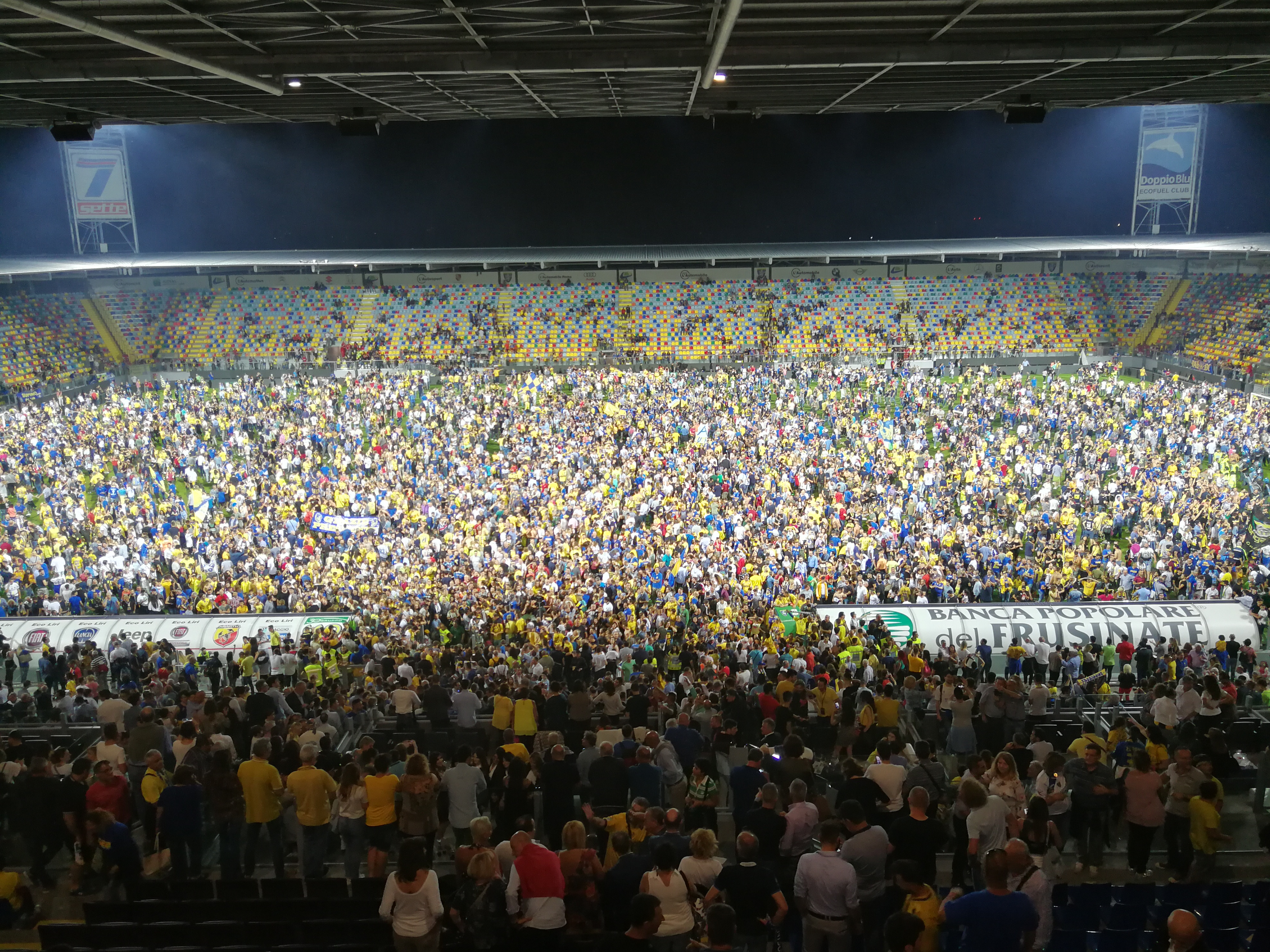 Benito Stirpe Stadium, view from the Main Stand of the pitch invasion (Frosinone-Palermo (play-off final) 2-0, 16/06/2018)